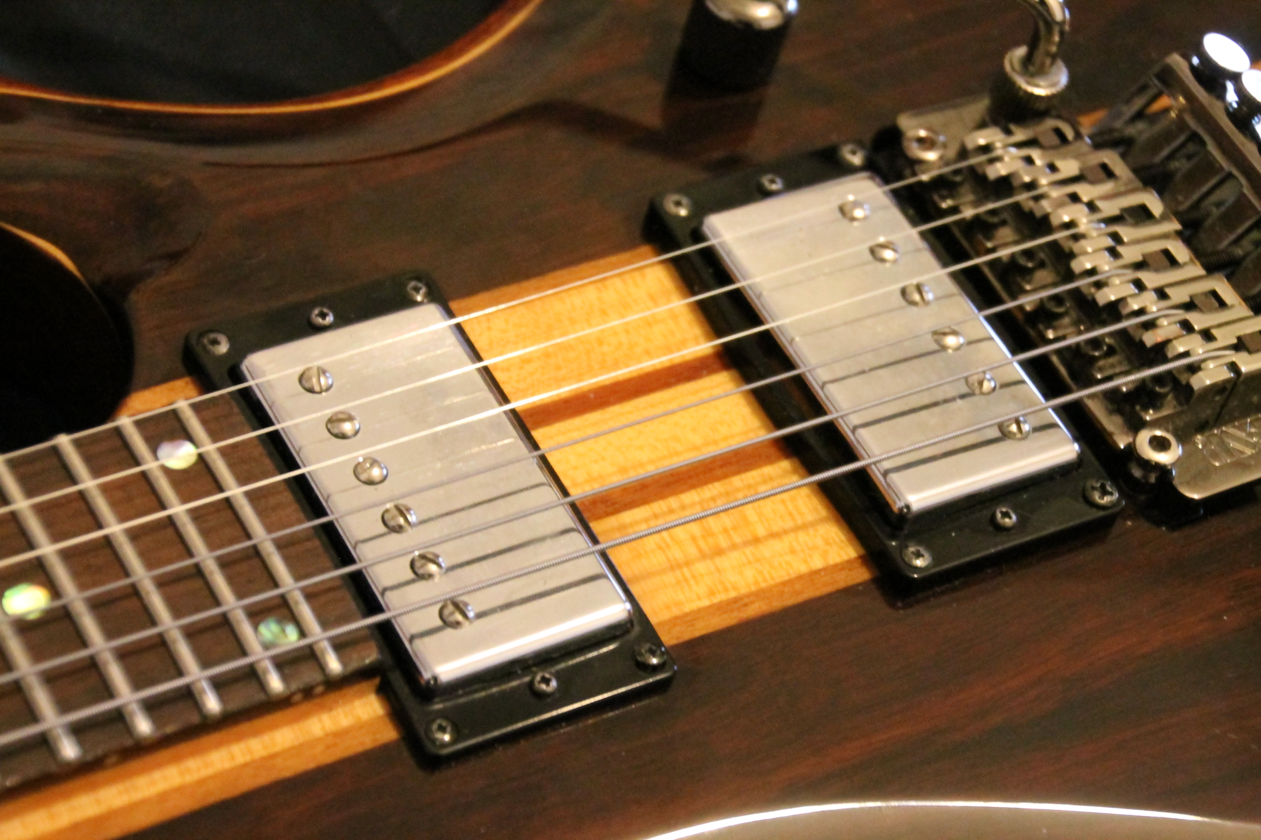 DiMarzio Air Norton (neck) ja Tone Zone (bridge) -pickups on LTD F -electric guitar.